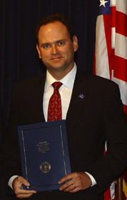 Dr. Carlos Del Castillo -Photo Credit NASA